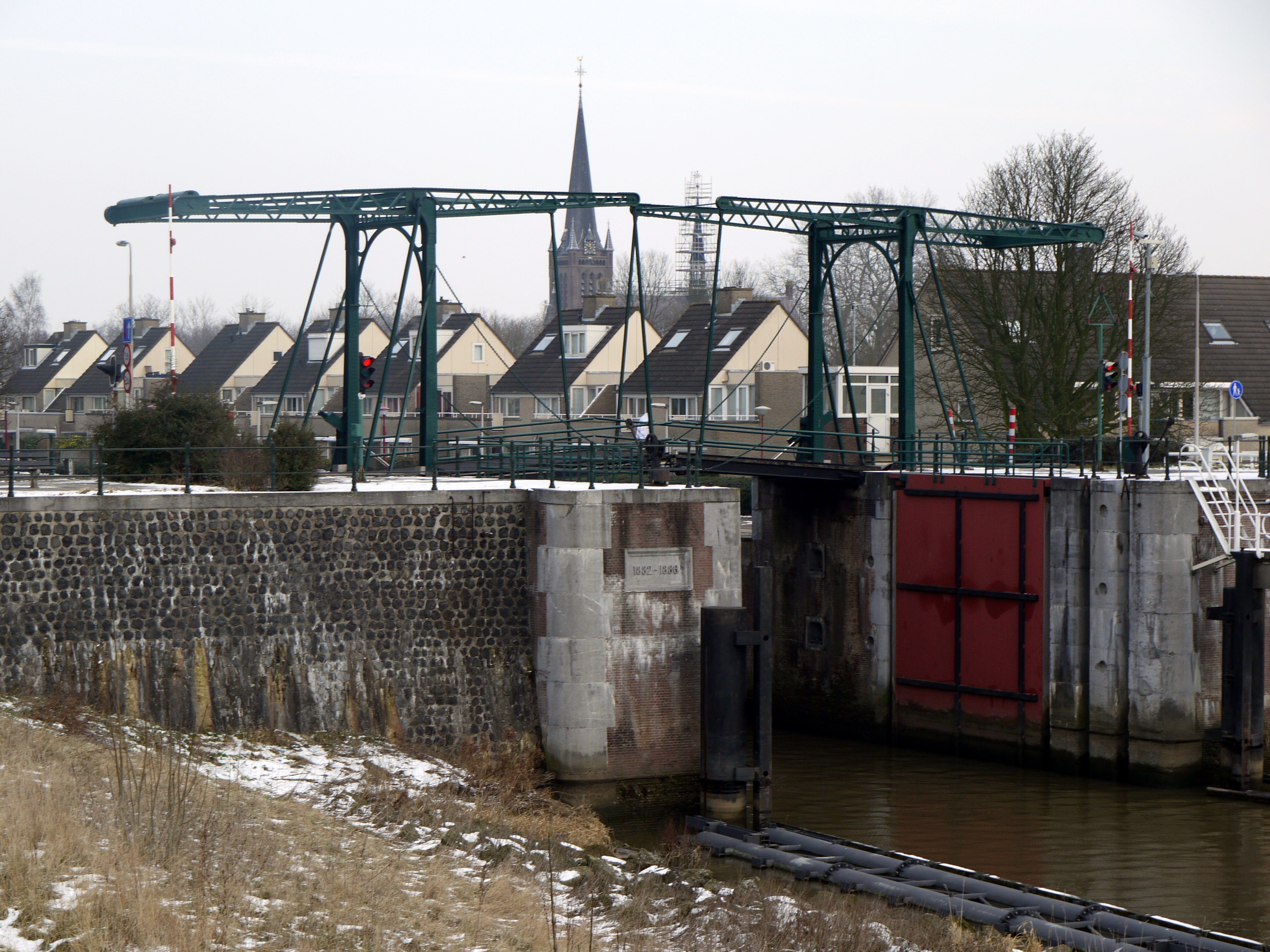 Emmabrug, a double drawbridge in Koninginnensluis, a canal lock in Nieuwegein (Vreeswijk). Built 19th century. Its national-monument number is 526672.